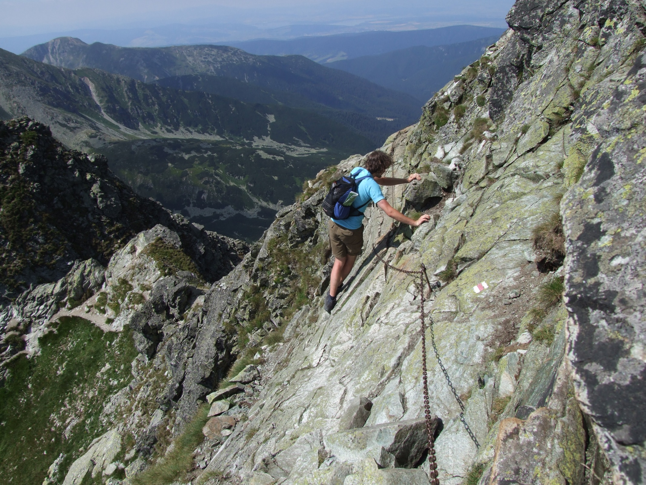 Tri Kopy (Trzy Kopy) - West Tatra Mountains